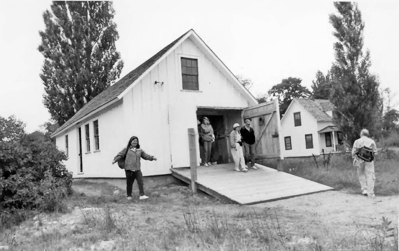 US Lifesaving Station, North Manitou Island: 1854 Volunteer Station NRHP#98001191